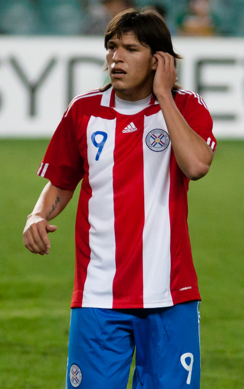 Federico Santander playing for the Paraguay national football team in a friendly match against Australia at the Sydney Football Stadium.